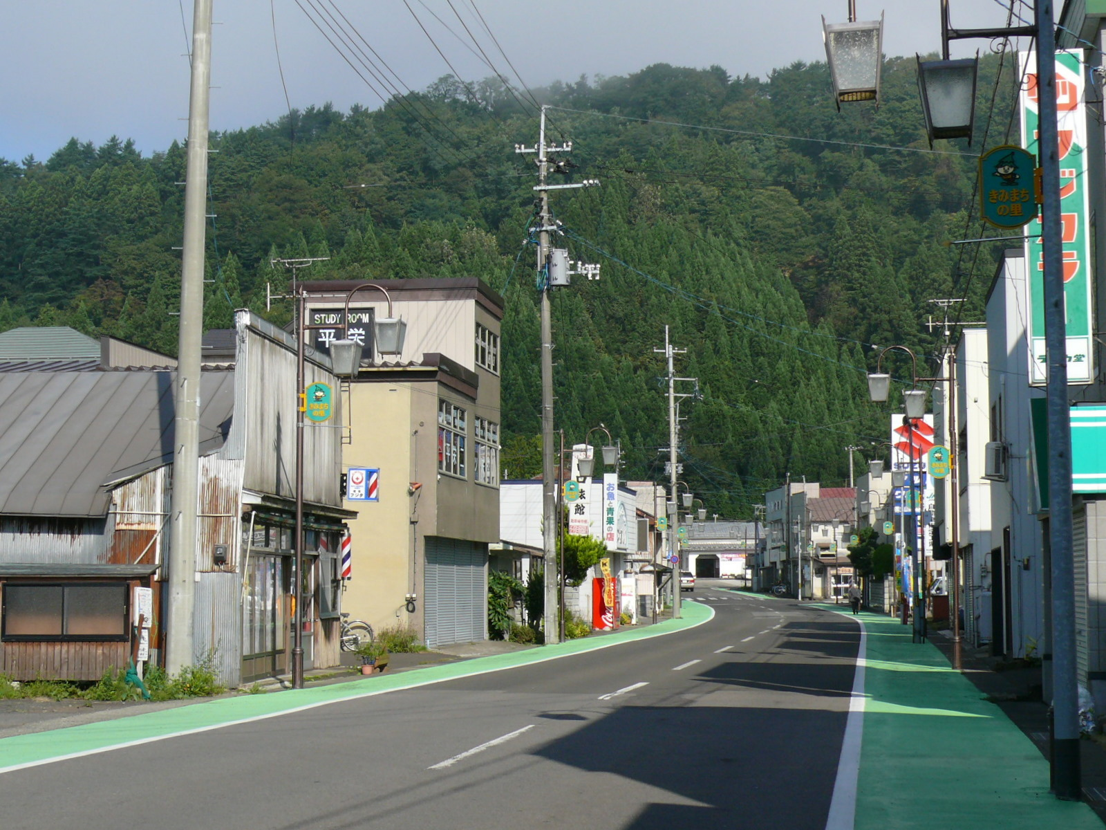 JR East Ōu Main Line Futatsui Station Front Street.(Akita,Japan)